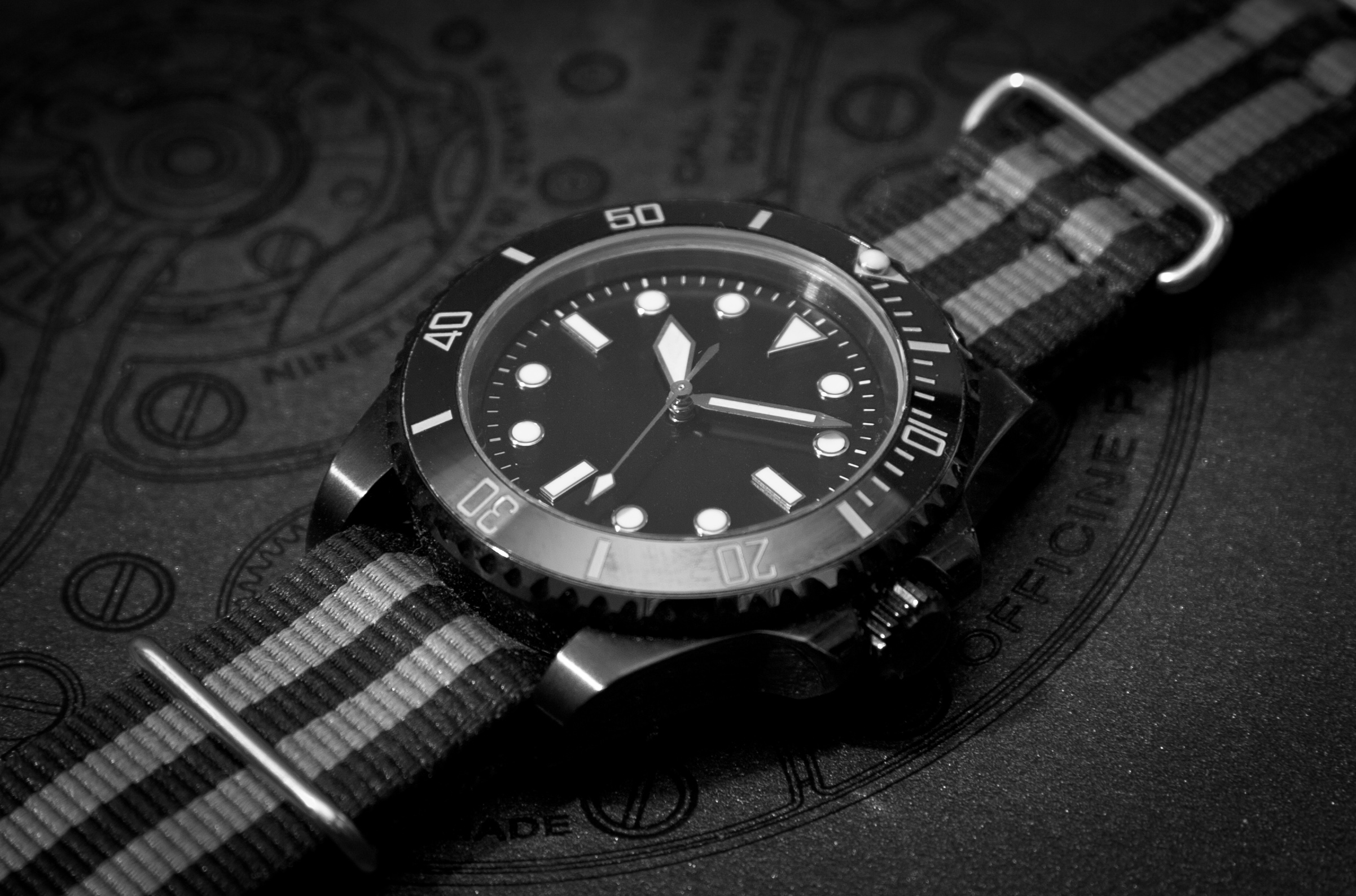 A wristwatch with a NATO strap.